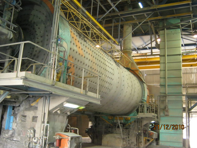 cement mill - Nesher cement, Ramla, Israel